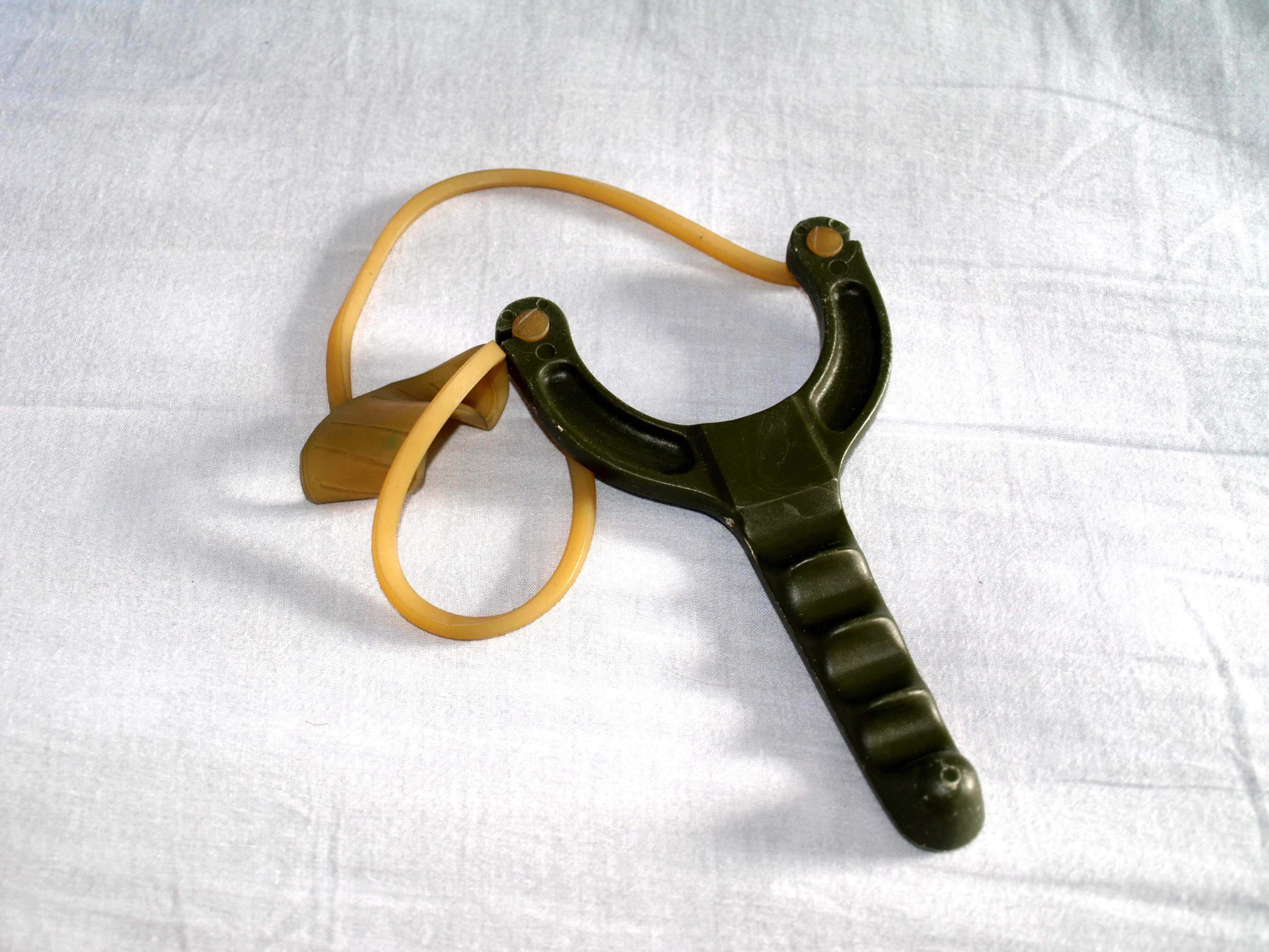 Plastic slingshot.